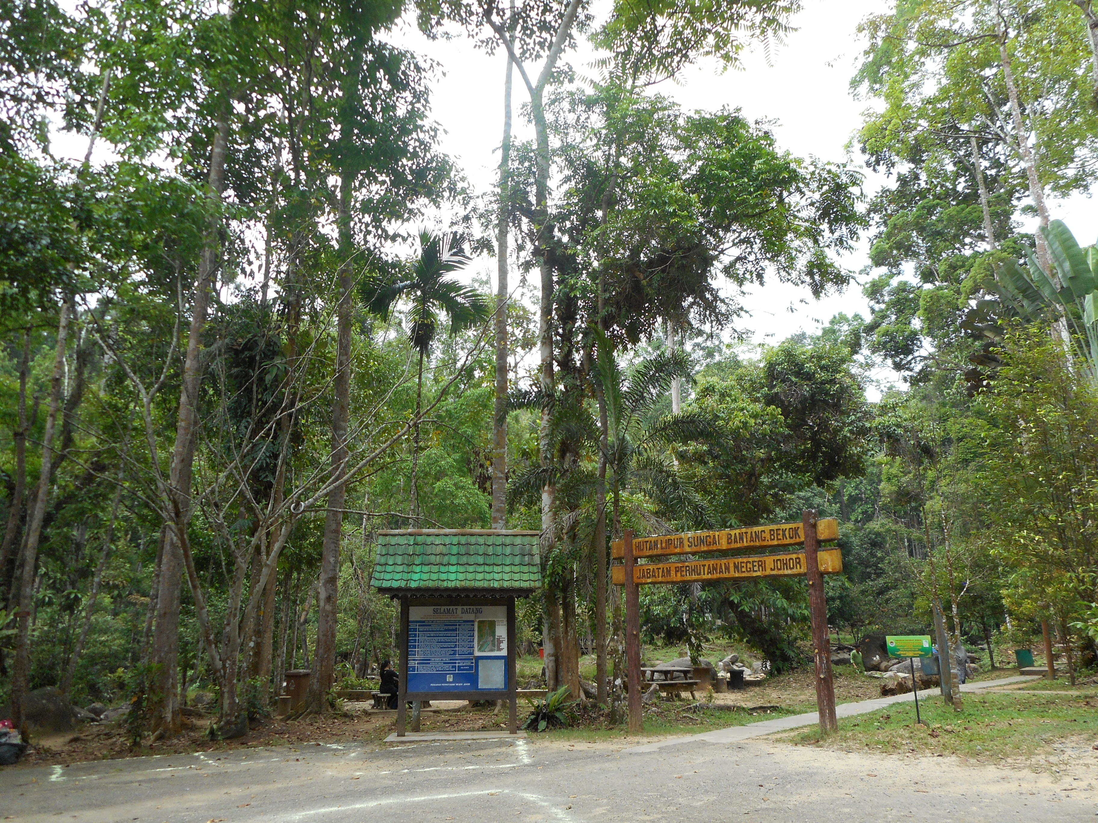 Bantang River Recreational Forest, Bekok, Segamat, Johor, Malaysia